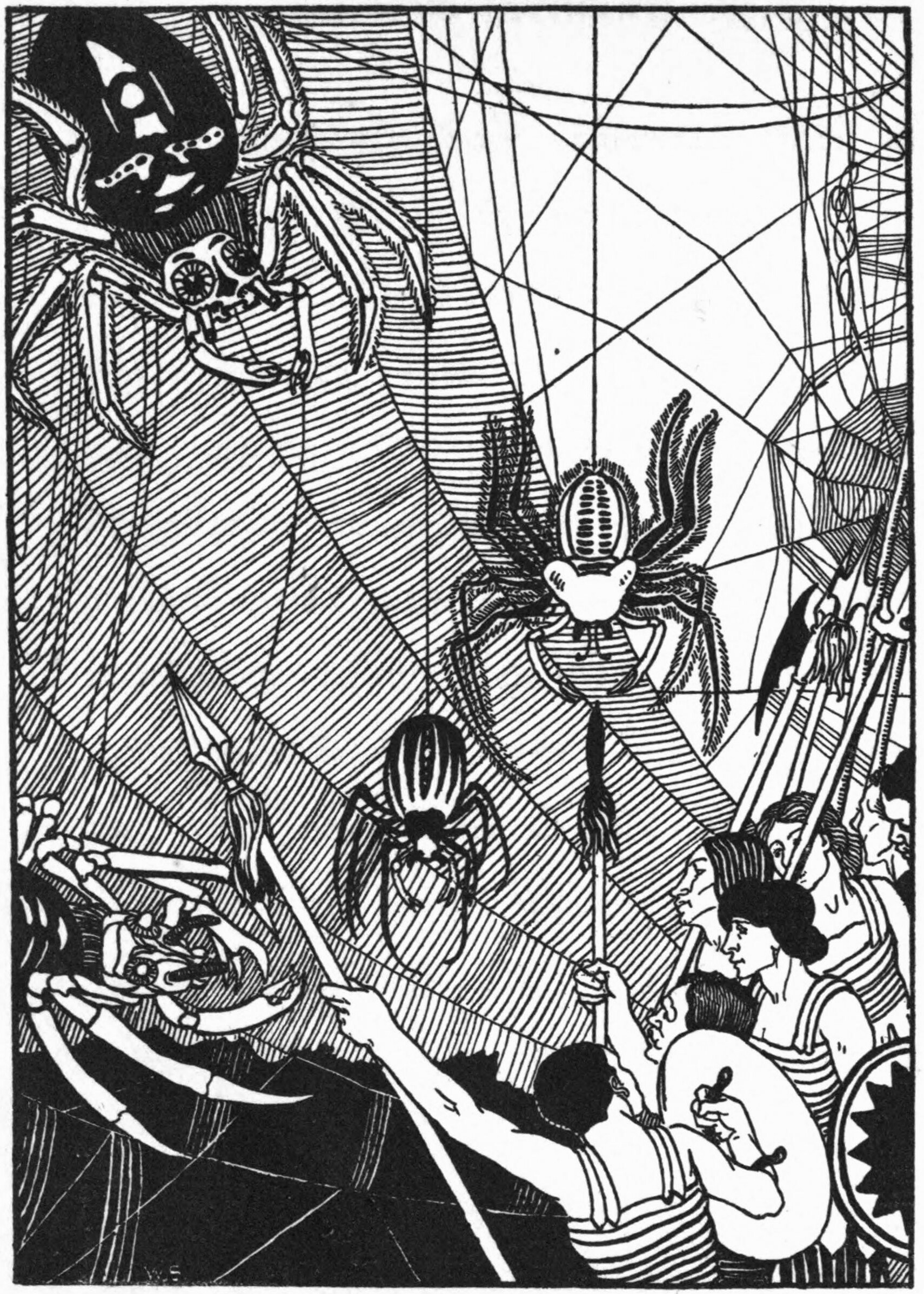 Illustration by William Strang from the 1894 edition of Lucian's True History; colossal lunar spiders spin a web in the air between the Moon and the Morning Star.